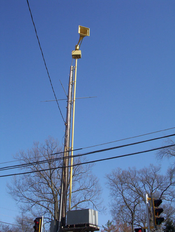 This photo is an image of a Federal Signal Thunderbolt (1000/1000T, Either is visually indistinguishable) with blower at the bottom of the picture. The Thunderbolt was mainly used for Civil Defence purposes during the Cold War. Some have fallen into a state of disrepair, some were decommissioned and replaced with modern tornado sirens and some were lucky enough to be maintained and are still alerting the general public to major threats. This siren is capable of producing 127dBC at 100ft or 30 metres and is most commonly available in Single Tone. Dual/fire tones were a decibel worse off to Single Tone, so Federal Signal quietly forgot about it. This siren met it's demise quite a few years later. This siren was one of the 'originals' of the Civil Defence era. The newer sirens are mainly intended for tornado warnings and other disasters, although very capable of sounding a Civil Defence warning. The other siren in this topic is an American Signal Penetrator P-50. This siren is huge (6' diameter) and is capable of pumping out 135dBc at 100ft or 30m, audible up to 10 square miles or 15 square kilometres. But still slightly 'quieter' than the very well known and feared Chryslers which belt out 138dBc at 100ft or 30m. Enough to implict severe hearing damage to within ten metres or 30 feet of the horns 'spread angle', unprotected. While the P-50 is still capable of being used for civil defence purposes, it's main intended purpose is to alert the people of Baran Park and surrounding areas in Milwaukee, WI to the threat of tornadoes.